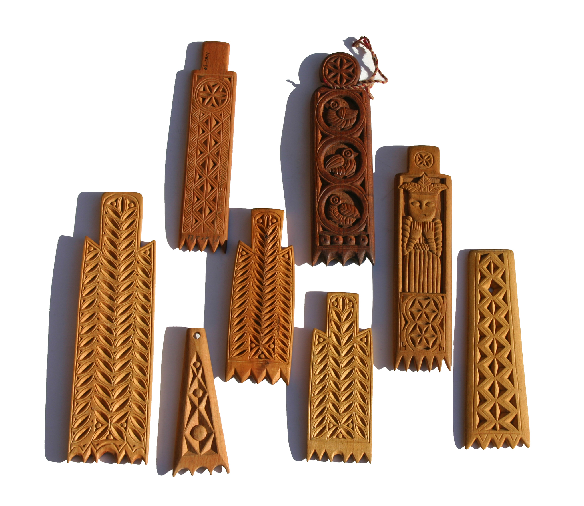 Gata stamp